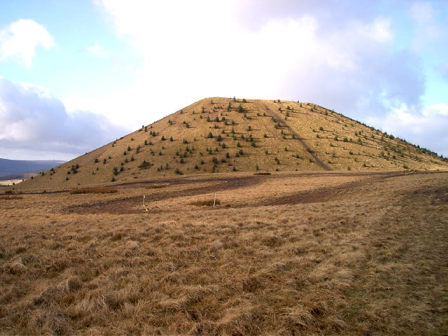 Tip above Tylorstown. This tip is one of the few mountain top tips left and can be seen from as far away as Exmoor, the Brecon Beacons and the Blorenge. (Following the disaster at Aberfan in 1966 virtually all of the mountain top tips were removed.) The Banana tip was situated alongside the railway line between the villages of Tylorstown and Ferndale and shaped like a banana - hence it's name, it was moved very many years ago and is no longer to be seen.